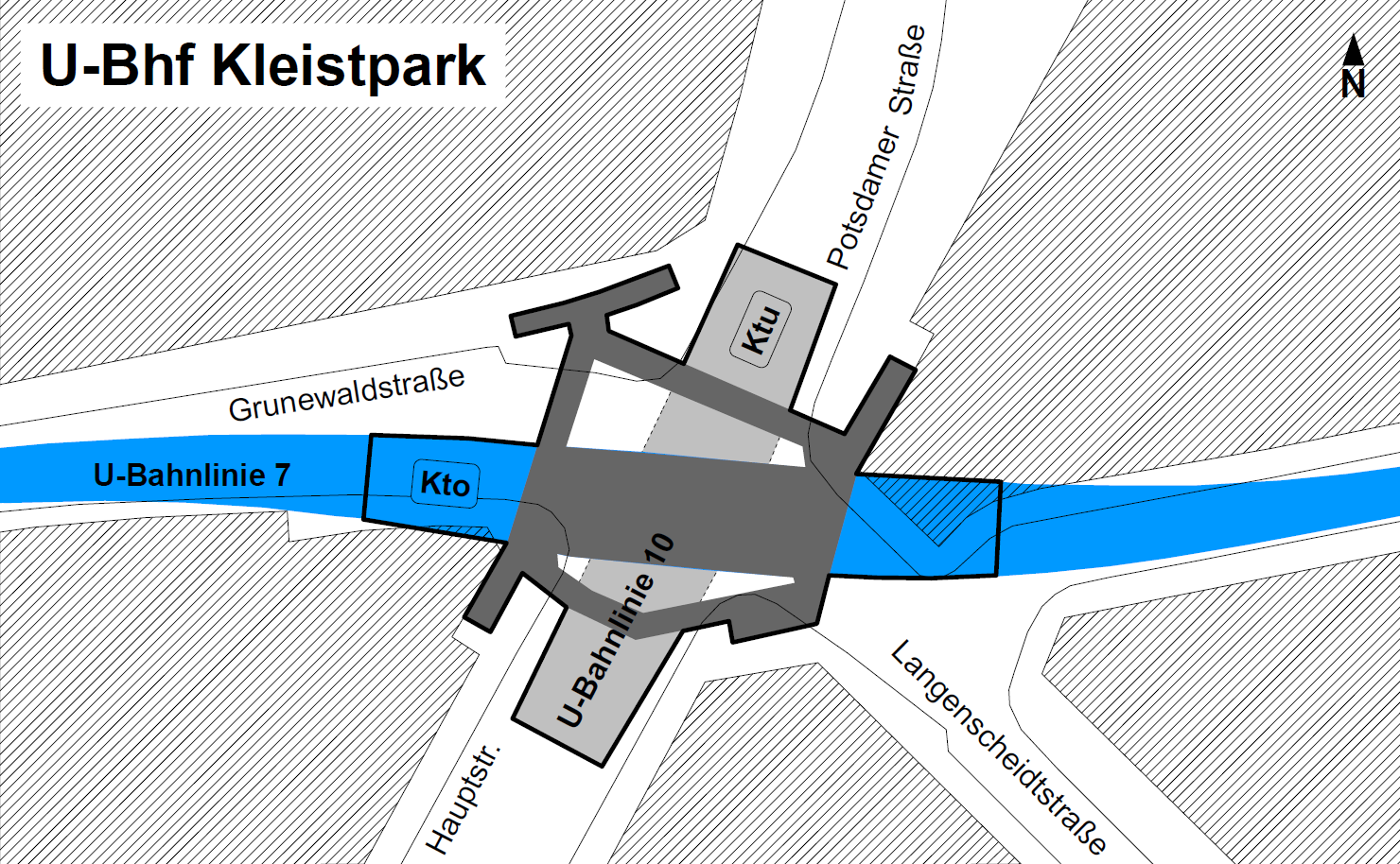 map of Berlin metro station Kleistpark